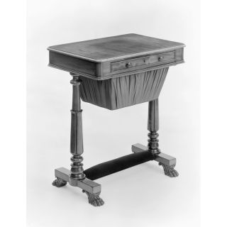 Work table, about 1840, Mahogany, modern velvet, modern wool, Great Britain, V&A Museum no. CIRC.626-1969 Dimensions: Height 72.7 cm, Width 61 cm, Depth 42.9 cm Work tables were essential pieces of domestic furniture for women. This example, although relatively simple in design, was practical and functional. The flat top could be used as a working surface and embroidery materials and tools stored in the bag below the drawer, which could be pulled out for easier access, while the padded stretcher offered a comfortable foot rest. The pillar-like legs, with their elongated leaf decoration and the lion paw feet, are examples of the influence of the Greek Revival style which had been fashionable for furniture since 1800.